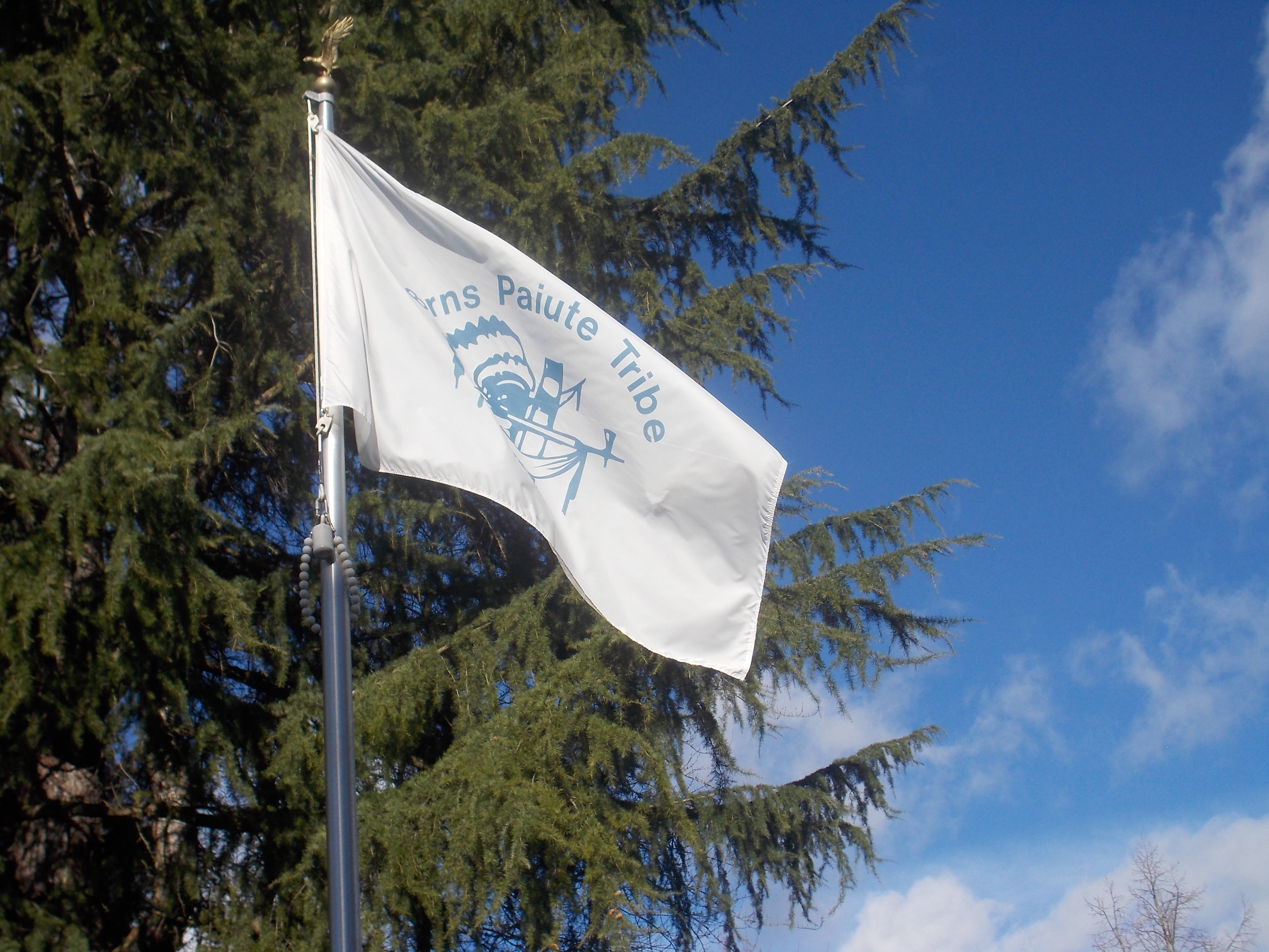 Oregon State Capitol, Salem, OR, December 2017